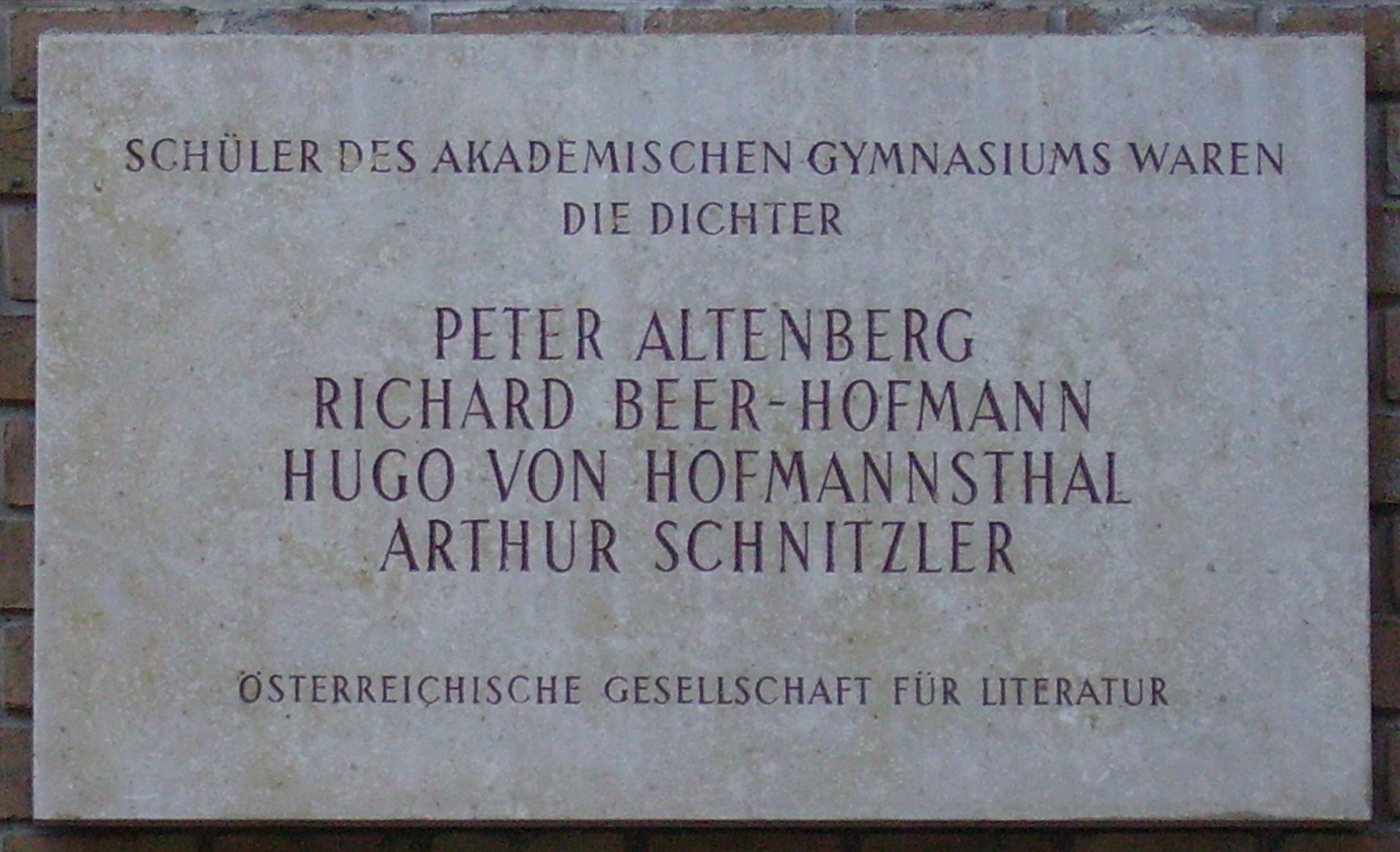 Vienna, Akademisches Gymnasium: memorial plaque for Peter Altenberg, Richard Beer-Hofmann, Hugo von Hofmannsthal, Arthur Schnitzler